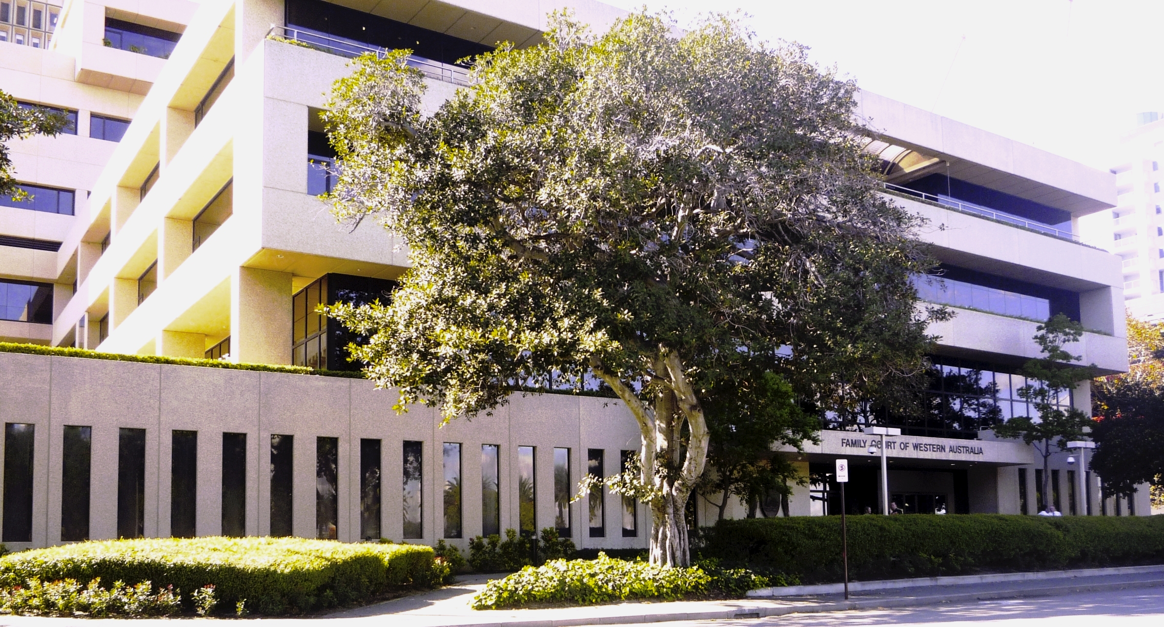 Exterior of Family Court of Western Australia